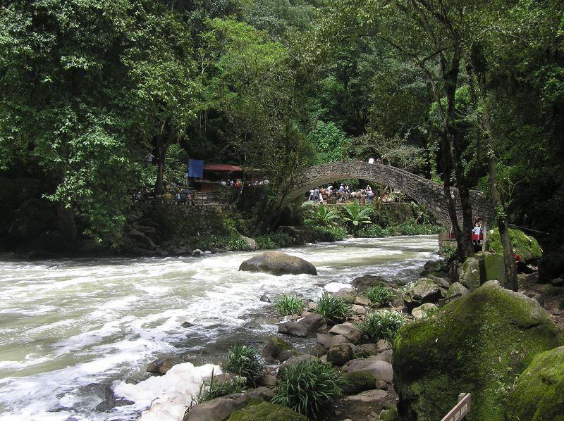 The Cupatitzio River — flowing near Zamora, in the Municipality of Uruapan of Michoacán state, southwestern México.